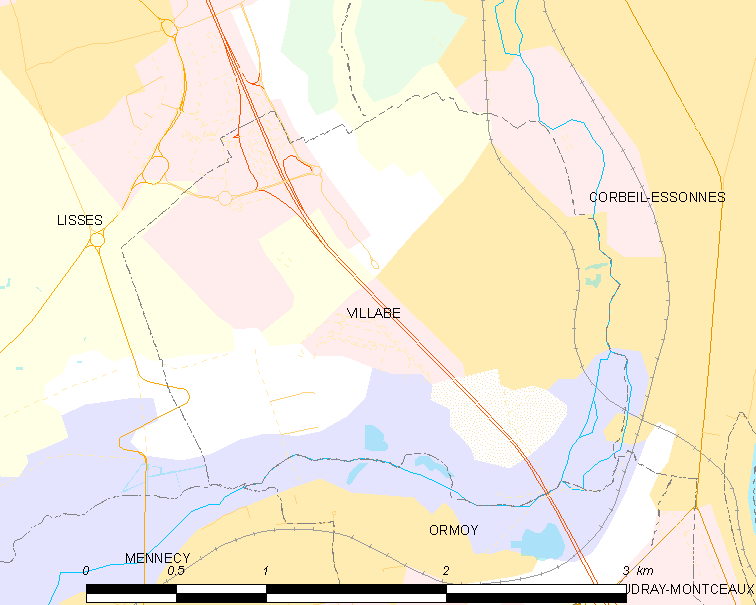 Map of French municipality Villabé